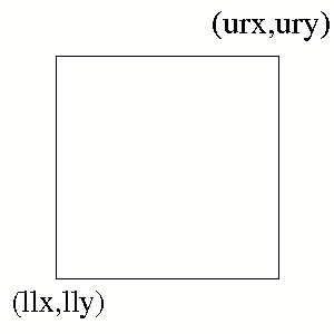 Example of EPS image